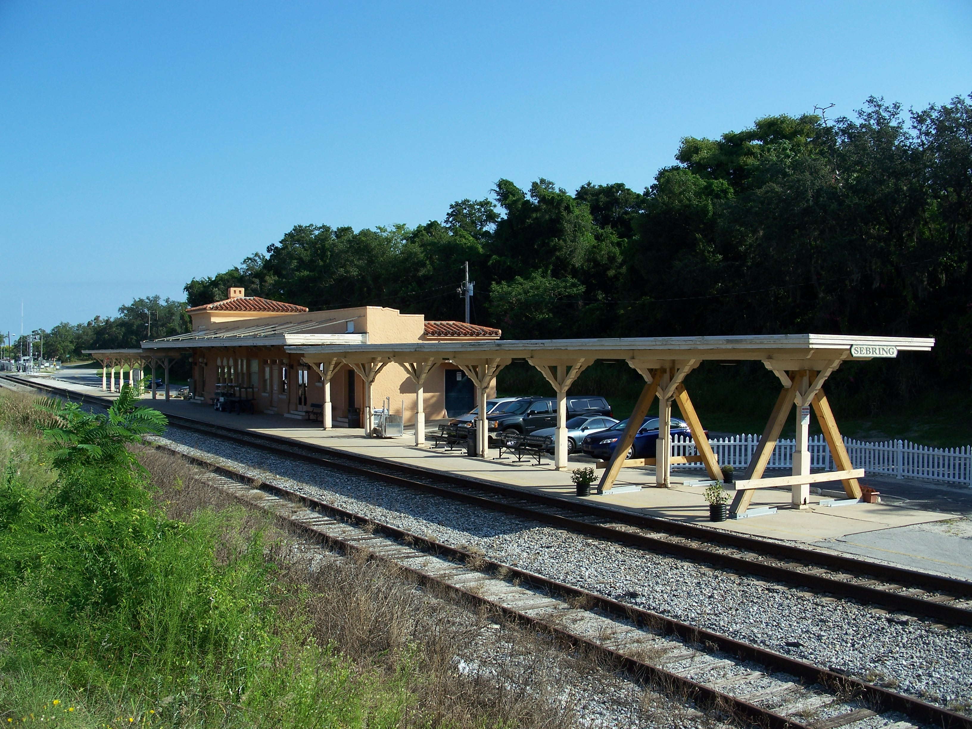 Sebring, Florida: Old Sebring Seaboard Air Line Depot